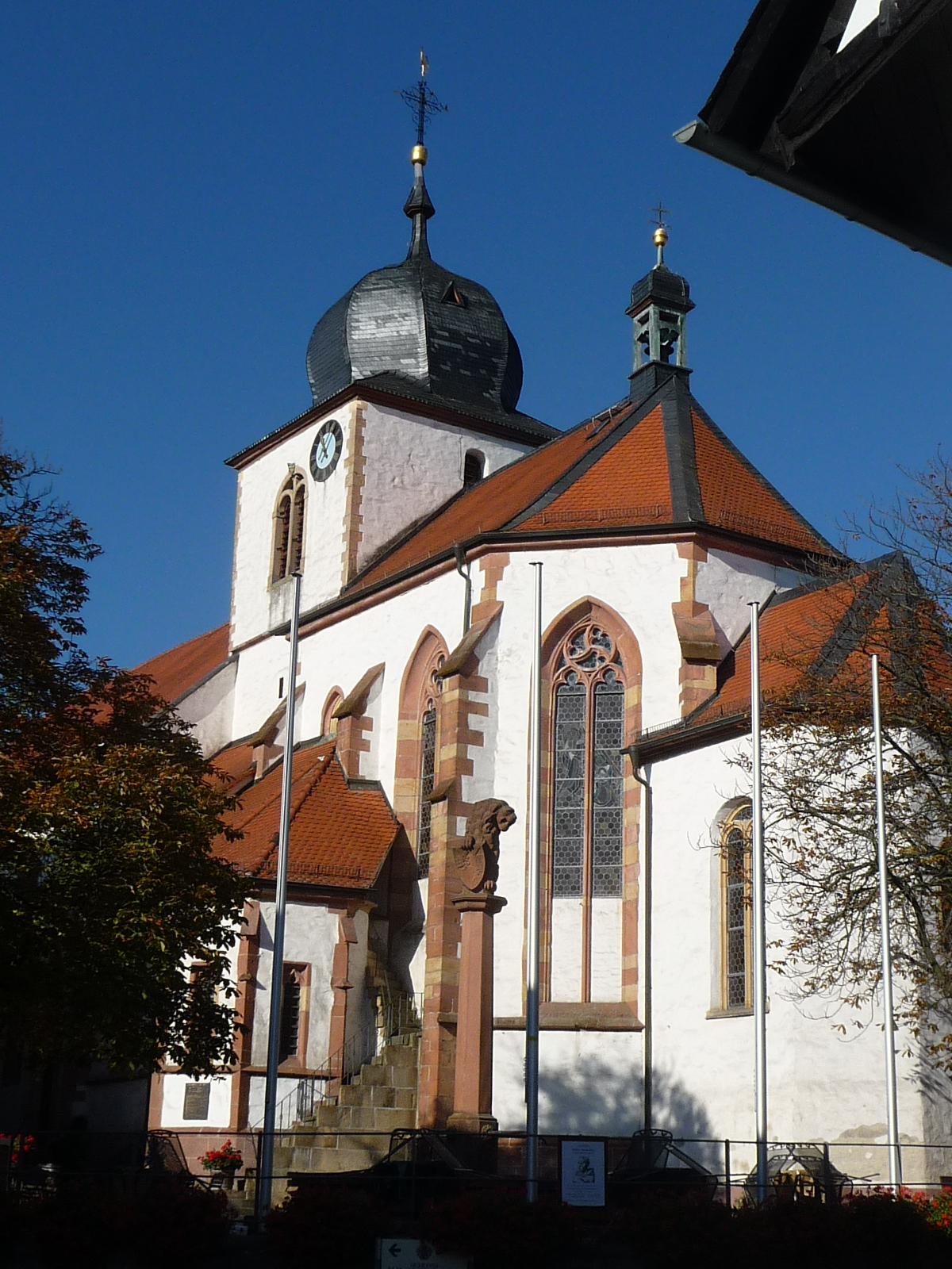 St. Georg (Wachenheim)